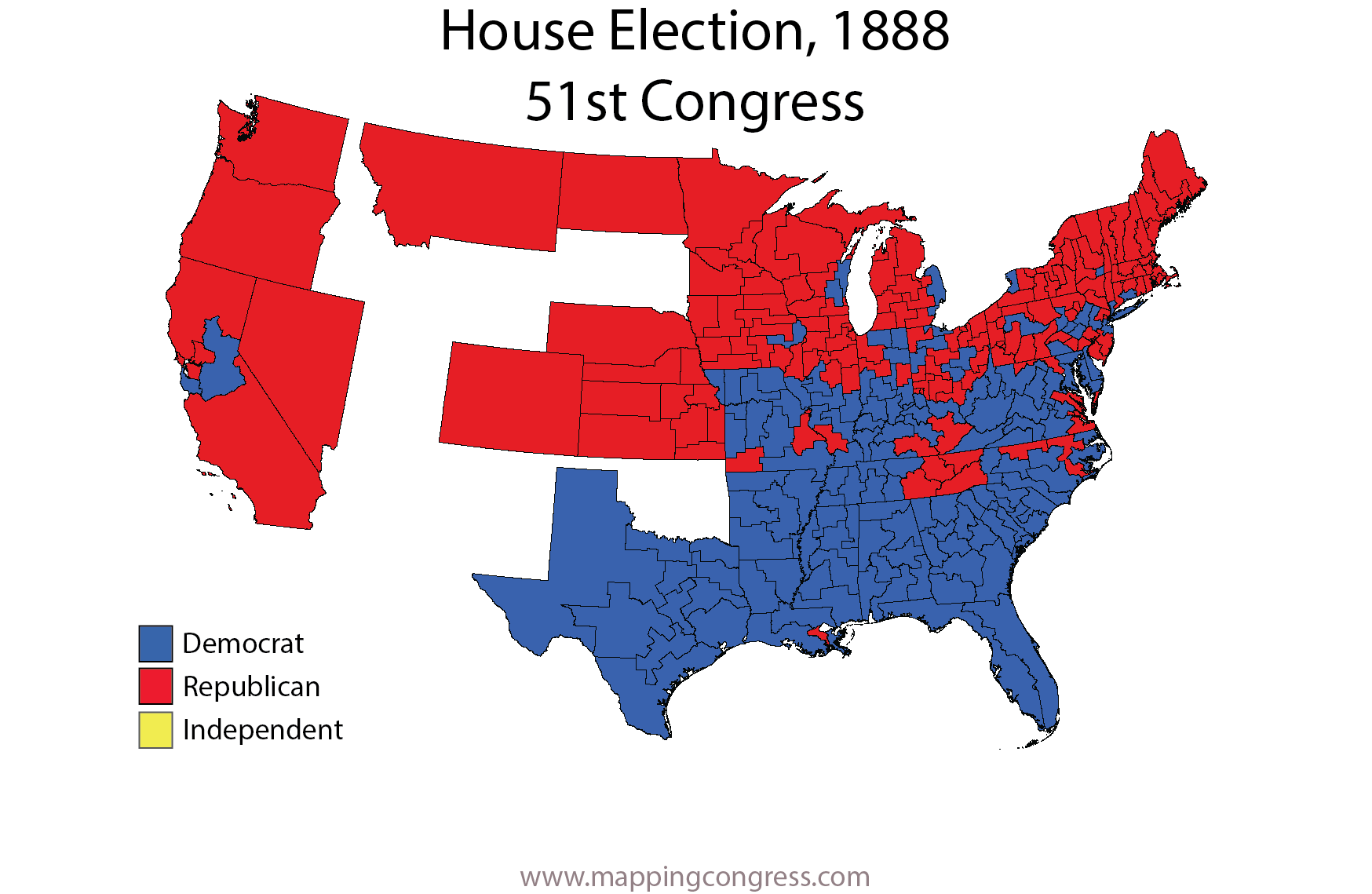 Map of U.S. House elections election day results from 1888 elections for 51st Congress (a number of Southern seats were later successfully contested and the results overturned)